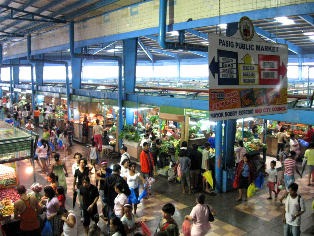 Public Market, Pasig City, the Philippines